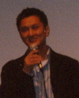 Wilson Yip, Colin Geddes, Sammo Hung Kam-Bo, and Jacky Wu at the premiere of Saat Po Long which became Kill Zone